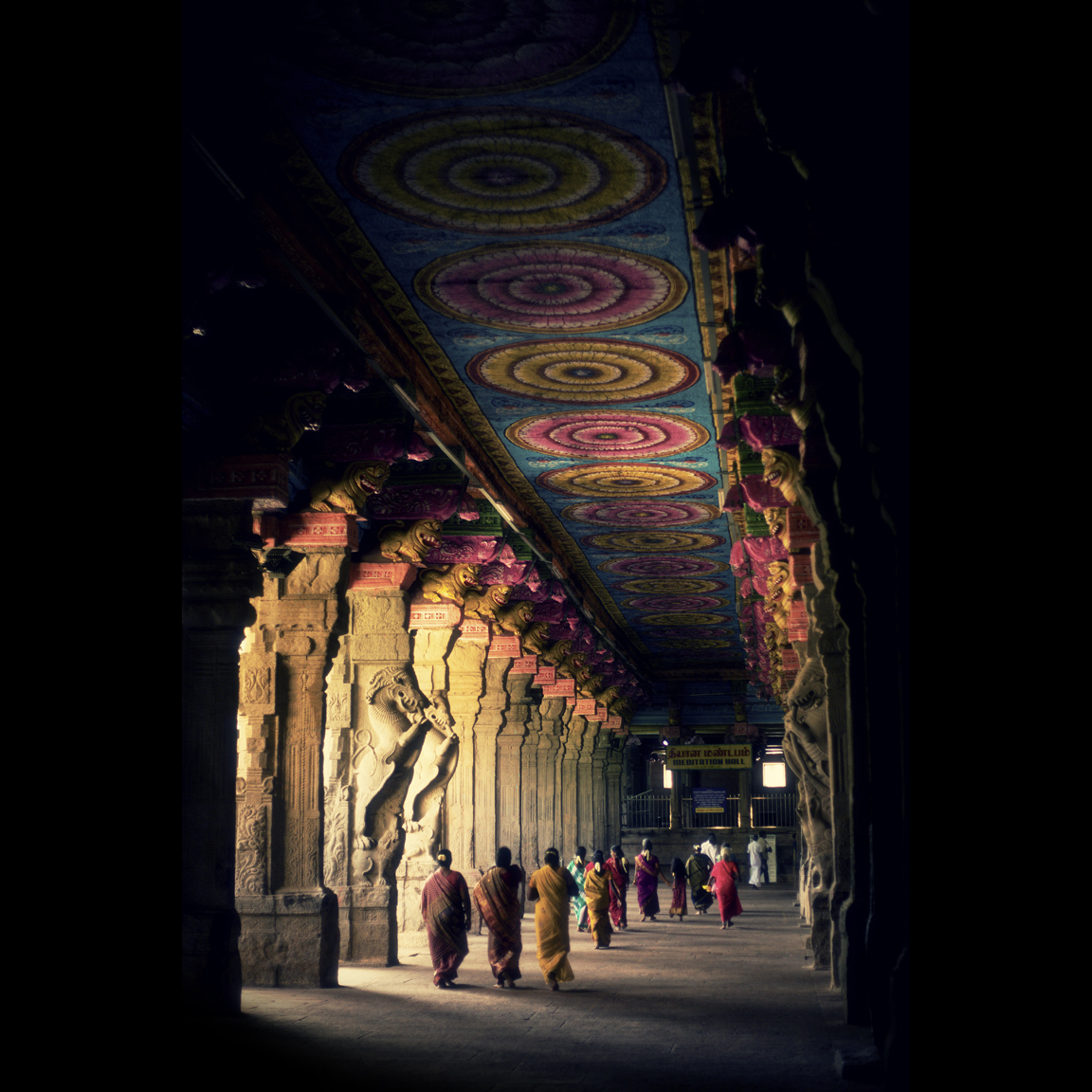 In South India, many go to temples on fridays. Fridays are considered to be auspicious, and the orthodox Tamil ladies do lots of poojas (prayers). Shot @ Meenakshi Amman Temple